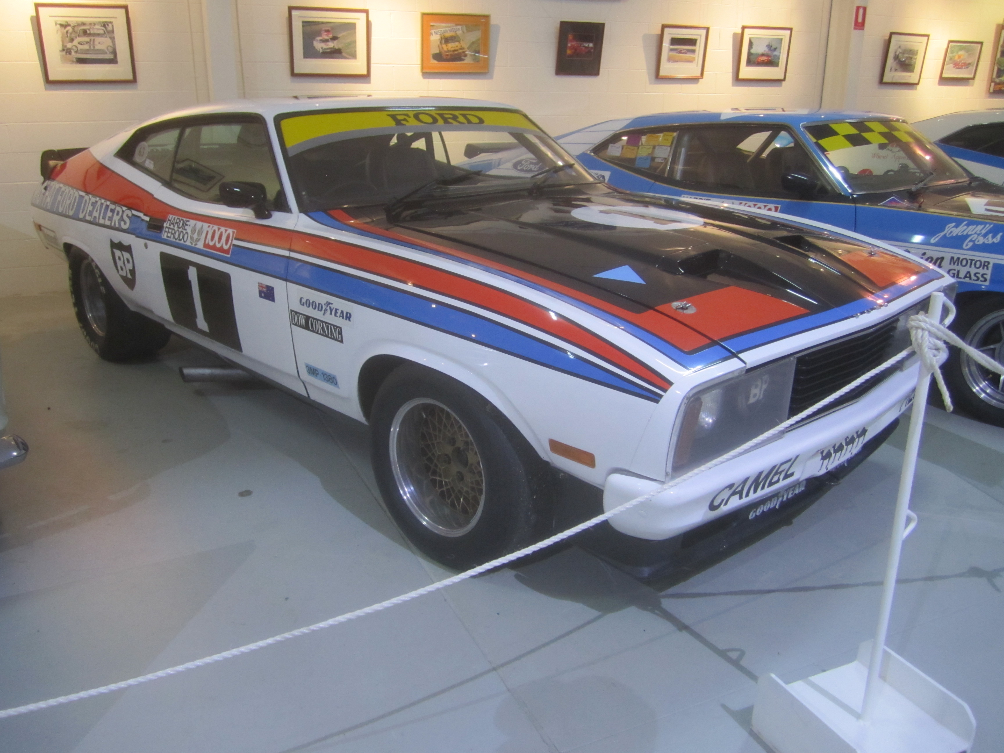 The 3rd facelift on the Ford Falcon XA Hardtop was the XC, the Hardtop racing for its 5th year, after winning in 72 and 73, the Toranas dominated, but the Moffat Ford Dealer Team was back in 1977, 1st and 2nd in the Hardie Ferodo 1000 at Bathurst. Allan Moffat and Jacky Ickx in the leading car closely followed by Colin Bond and Alan Hamilton, an A9X Torana coming 3rd